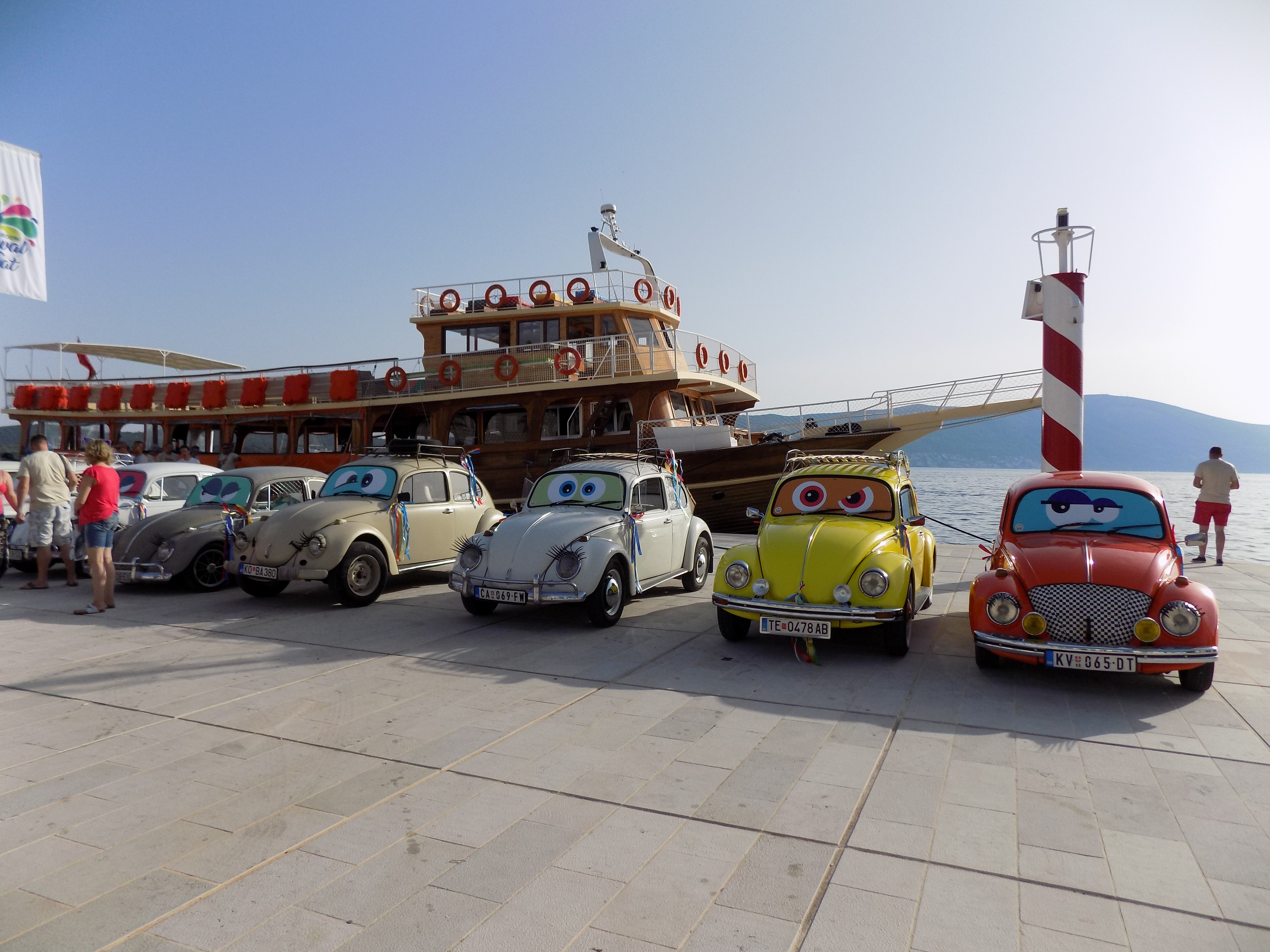 Carnival in Tivat in 2019, 2019, Volkswagen Beetle Car Show "Bubijada"